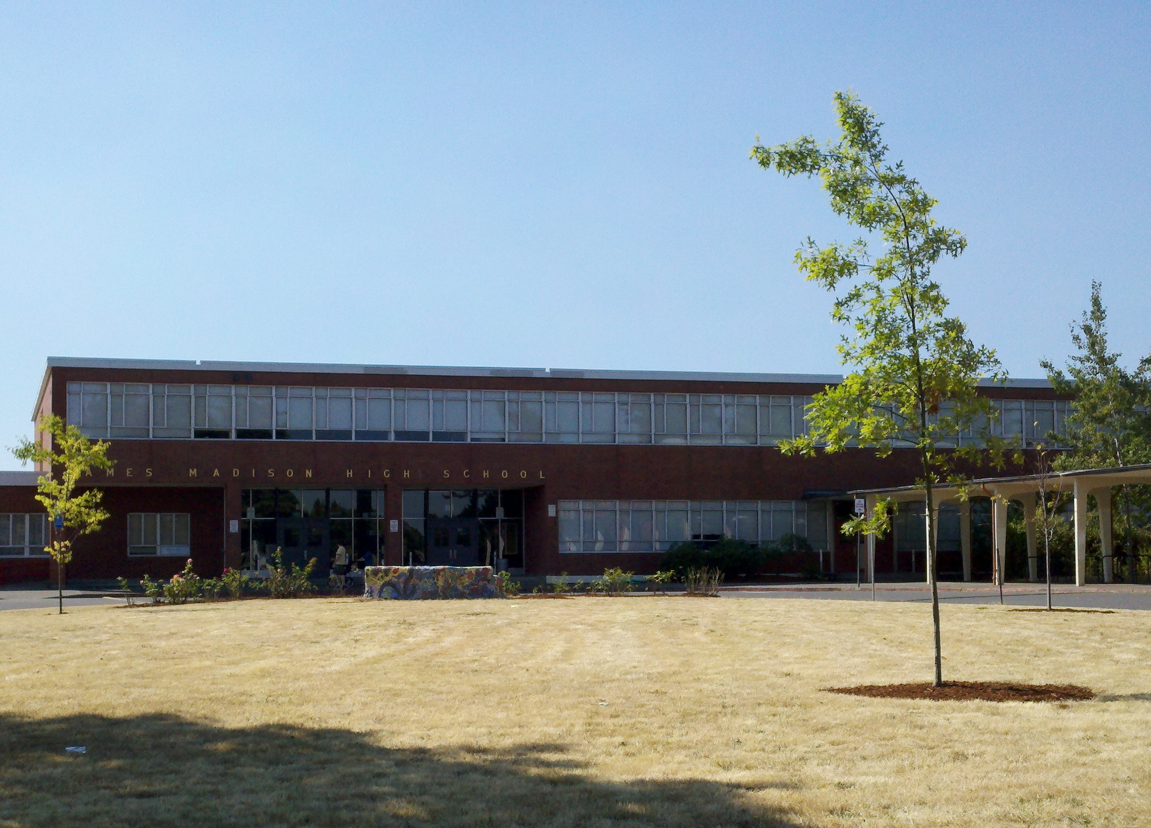 Main building at James Madison High School in Portland, Oregon.